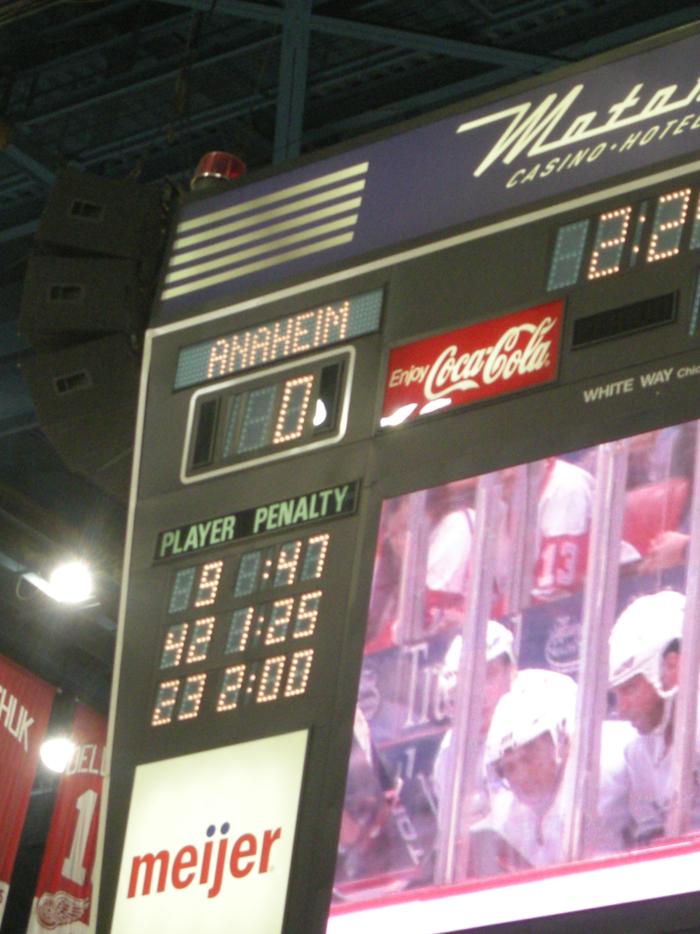 Anaheim penalties announced on the arena scoreboard during the Anaheim Ducks vs. Detroit Red Wings ice hockey game at Joe Louis Arena in Detroit, Michigan (United States). Detroit won 4–0.